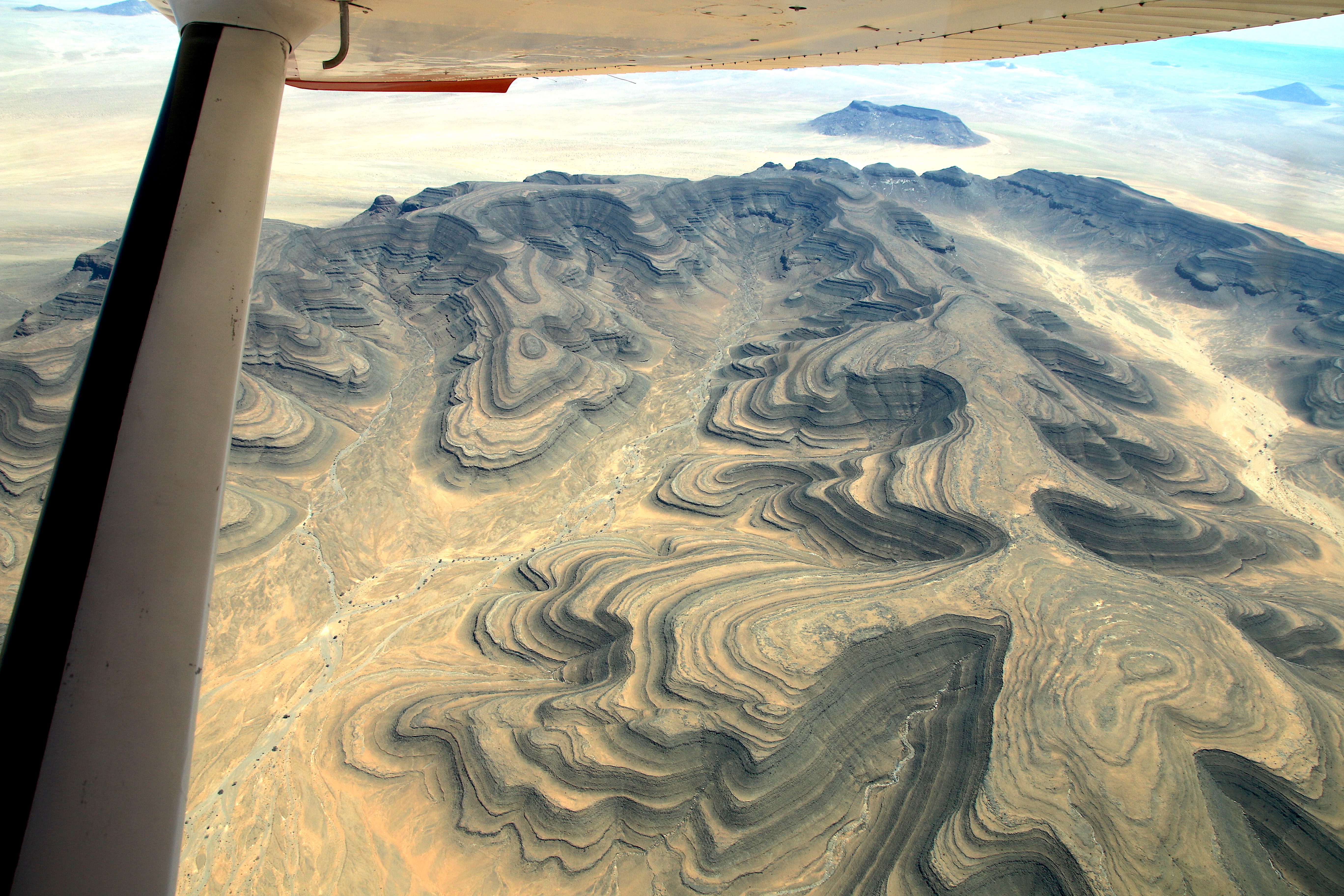 Tsaus Mountains aerial view (2018)